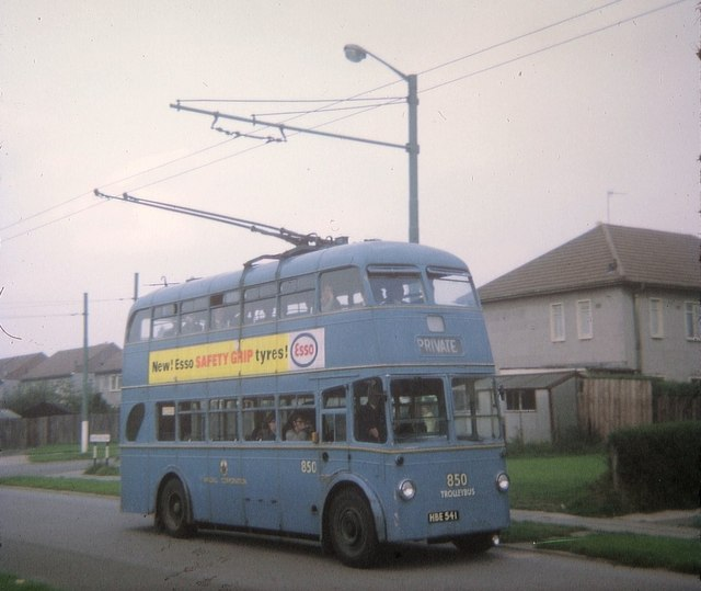 Walsall trolleybus in Sneyd Hall Road. Crossley Empire TDD43/2 trolleybus 850 (registration number HBE 541) on a private tour in Sneyd Hall Road on the Dudley Fields Estate, which was covered by trolleybus circular route 33. The vehicle has Roe 54-seater bodywork dating from 1951, first entering service with Grimsby-Cleethorpes Transport then with Walsall Corporation Transport in early 1961, after the former abandoned their trolleybus system the previous year. Trolleybus 850 was built by Crossley in 1961 and fitted with a Roe body. It was originally Cleethorpes trolleybus 63.